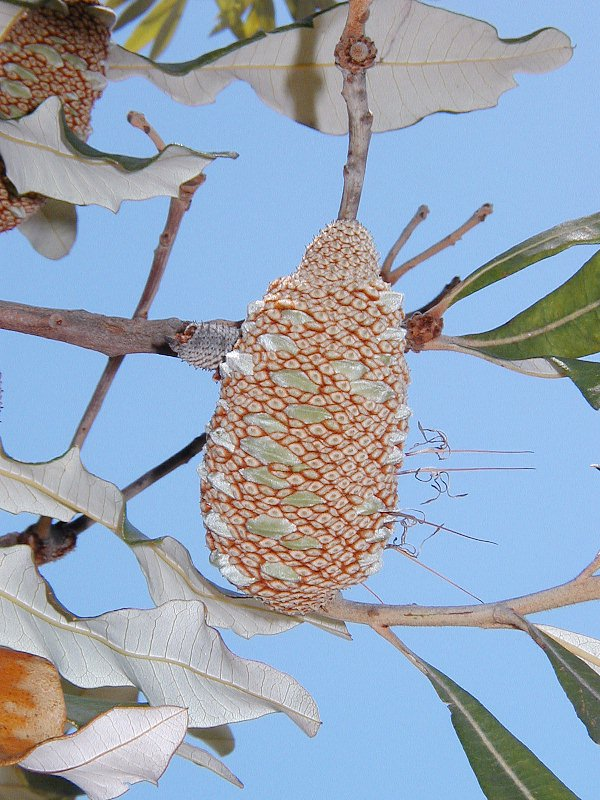 Banksia dentata cone, young follicles cult. Photographed in Sydney, NSW.